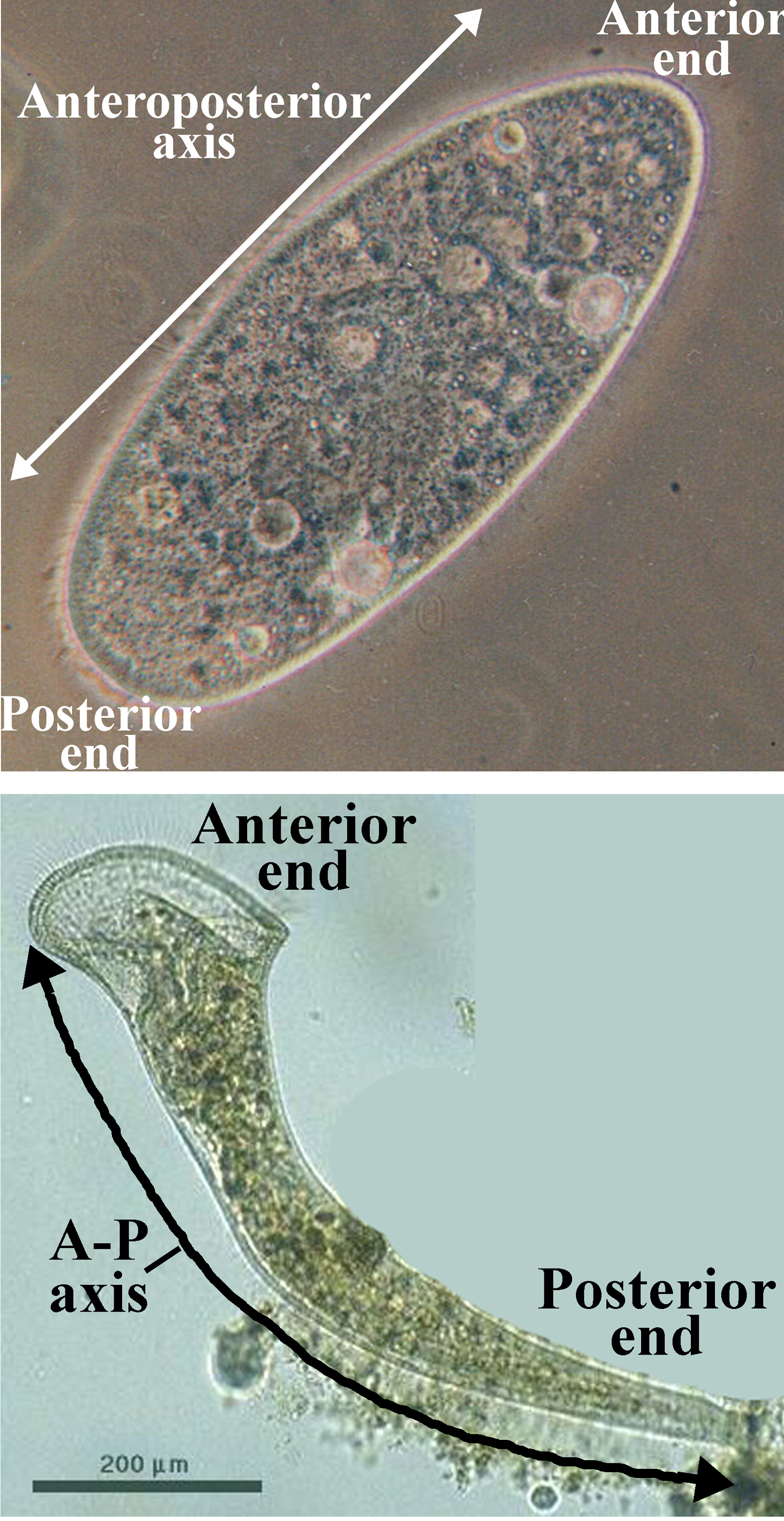 Composite image of ciliates, showing anteroposterior axes